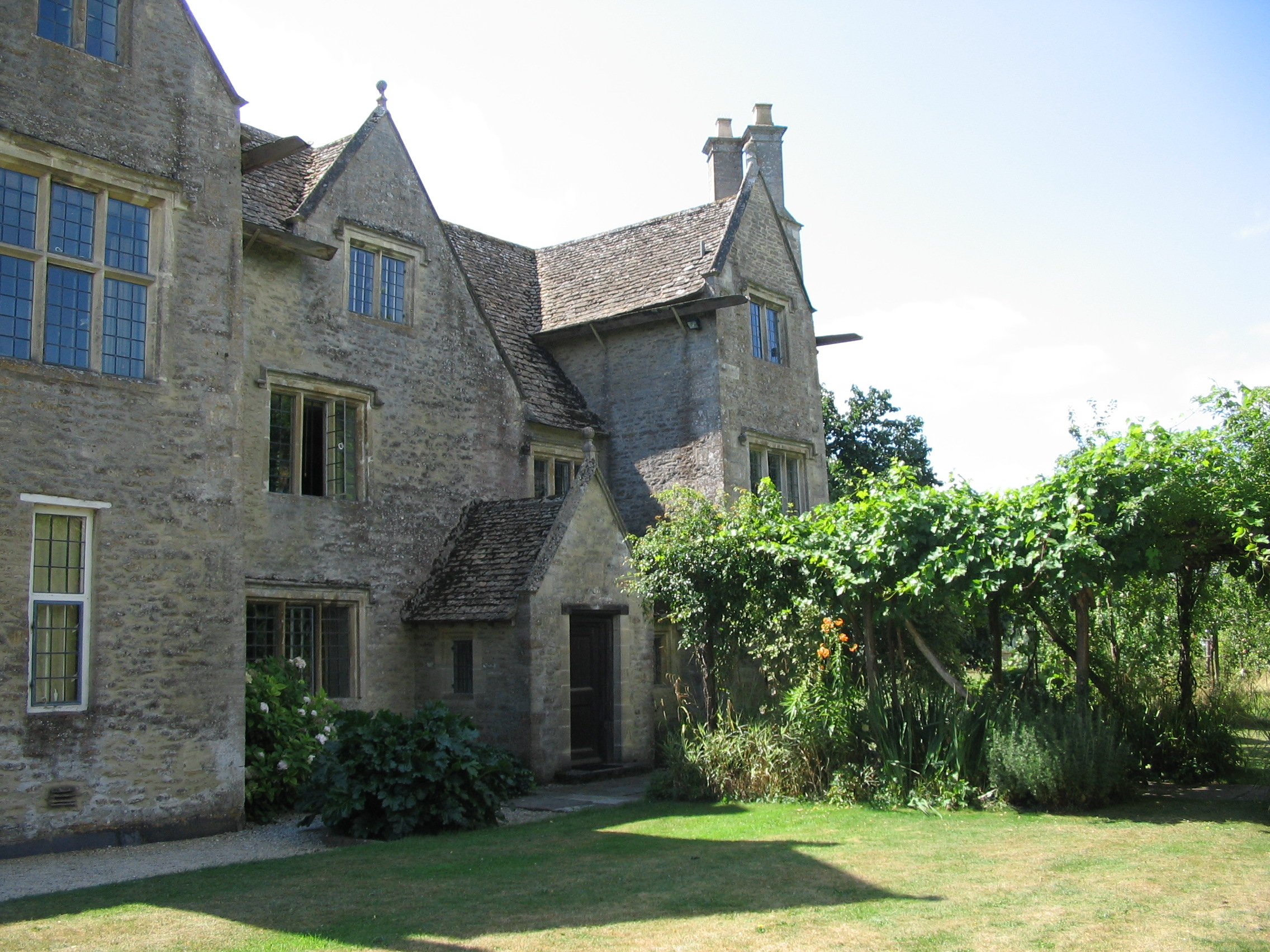 Kelmscott Manor - own picture - August 2006